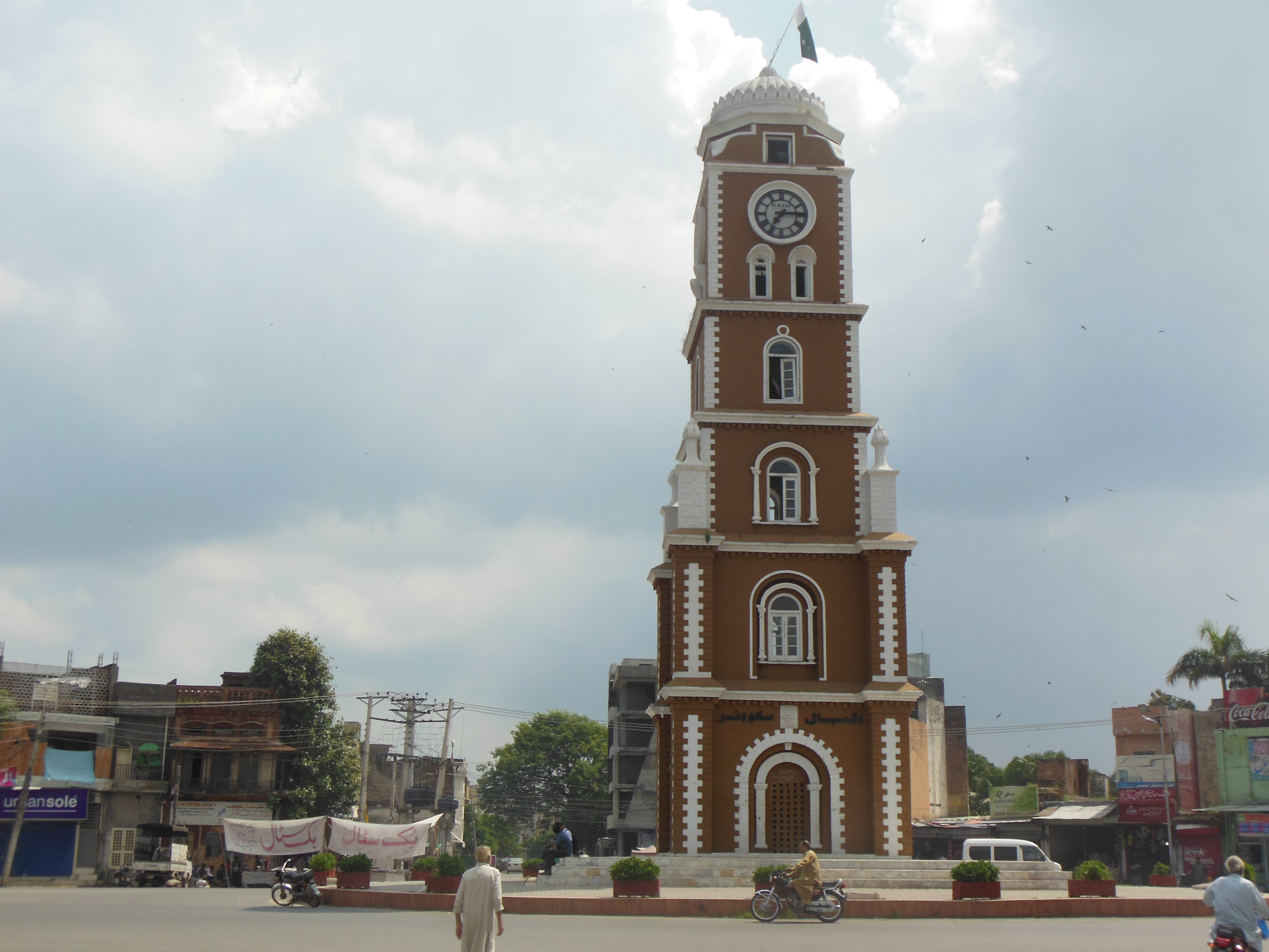 Clock Tower- The clock tower located at Saddar Bazar, Sialkot, Cantt. This is a photo of a monument in Pakistan identified as the PB-U-58